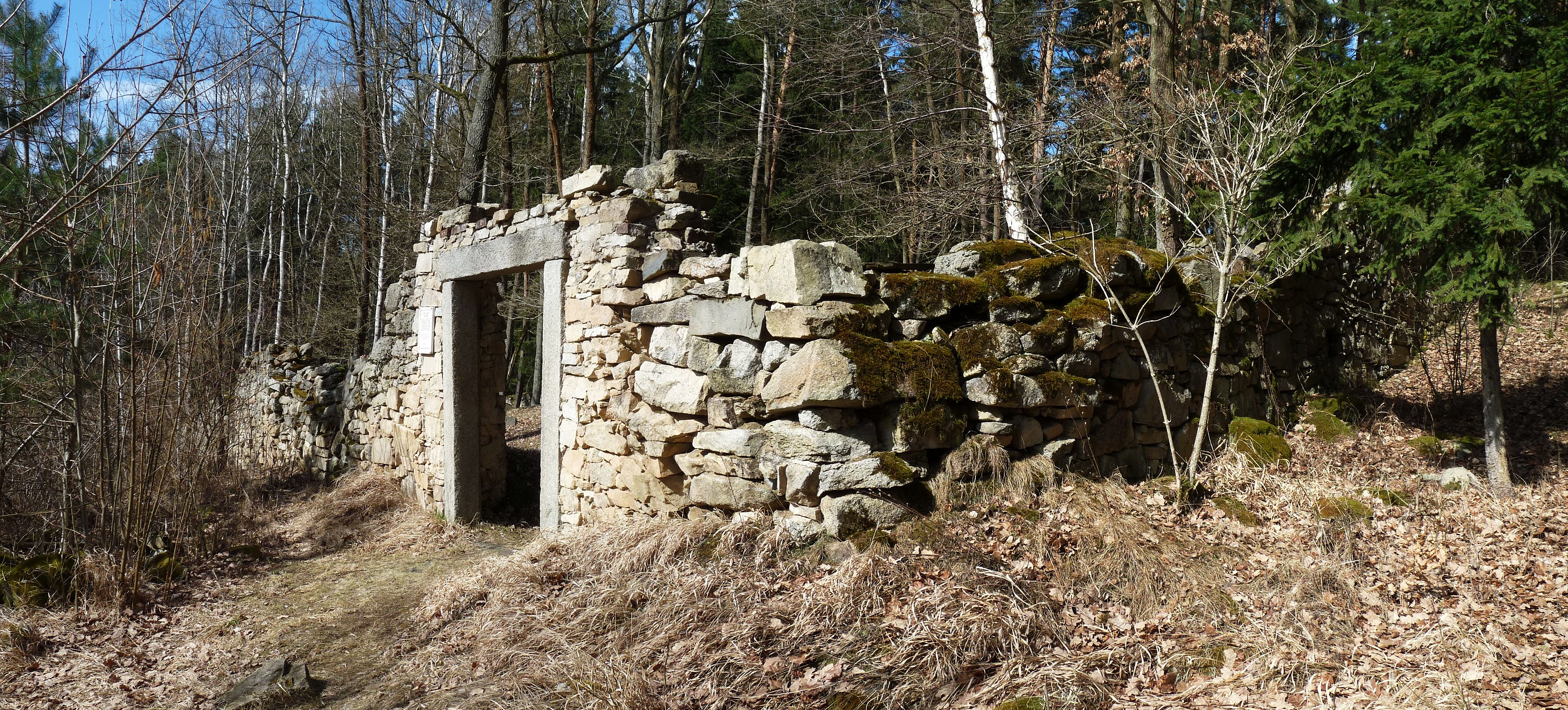 Jewish cemetery by the municipality of Slatina, Klatovy District, Czech Republic - entrance